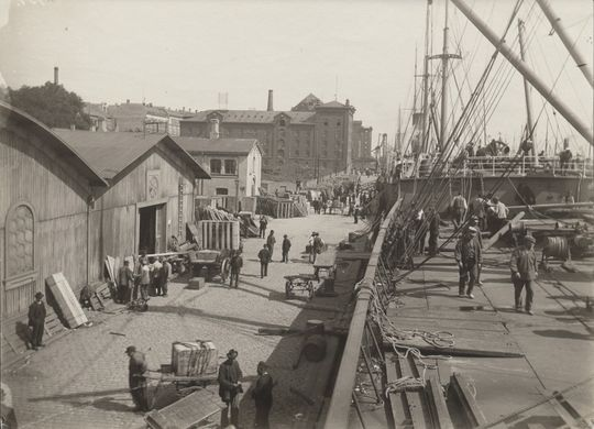 An America steamer at Larsens Plads / 8 Toldbodgade in Copenhagen, Denmark